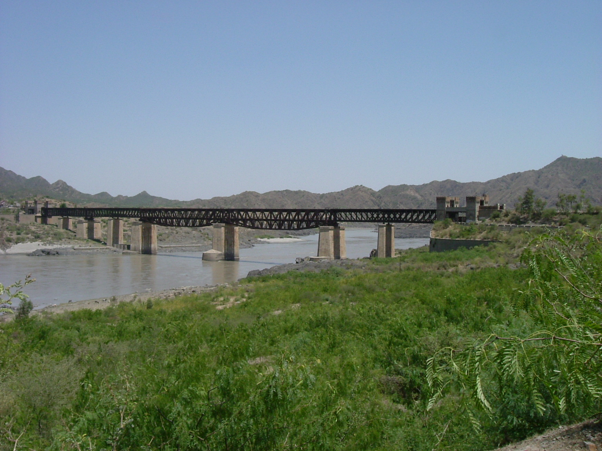 Bridge over the Indus, built 1880